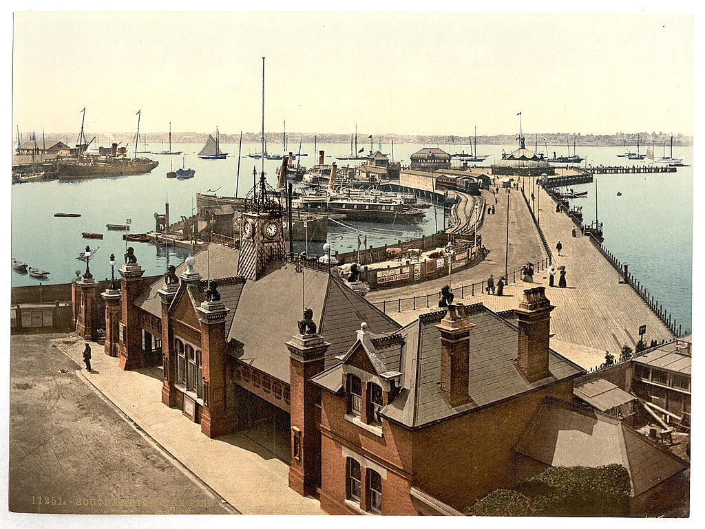 [The pier, Southampton, England] [between ca. 1890 and ca. 1900]. 1 photomechanical print : photochrom, color. Notes: Title from the Detroit Publishing Co., Catalogue J--foreign section, Detroit, Mich. : Detroit Publishing Company, 1905. Print no. "11251". Forms part of: Views of the British Isles, in the Photochrom print collection. Subjects: England--Southampton. Format: Photochrom prints--Color--1890-1900. Repository: Library of Congress, Prints and Photographs Division, Washington, D.C. 20540 USA, Part Of: Views of the British Isles (DLC) 2002696059 More information about the Photochrom Print Collection is available at Higher resolution image is available (Persistent URL): Call Number: LOT 13415, no. 862 [item] the features on the pier (the station with two platforms in particular) mean the photo to after 1891